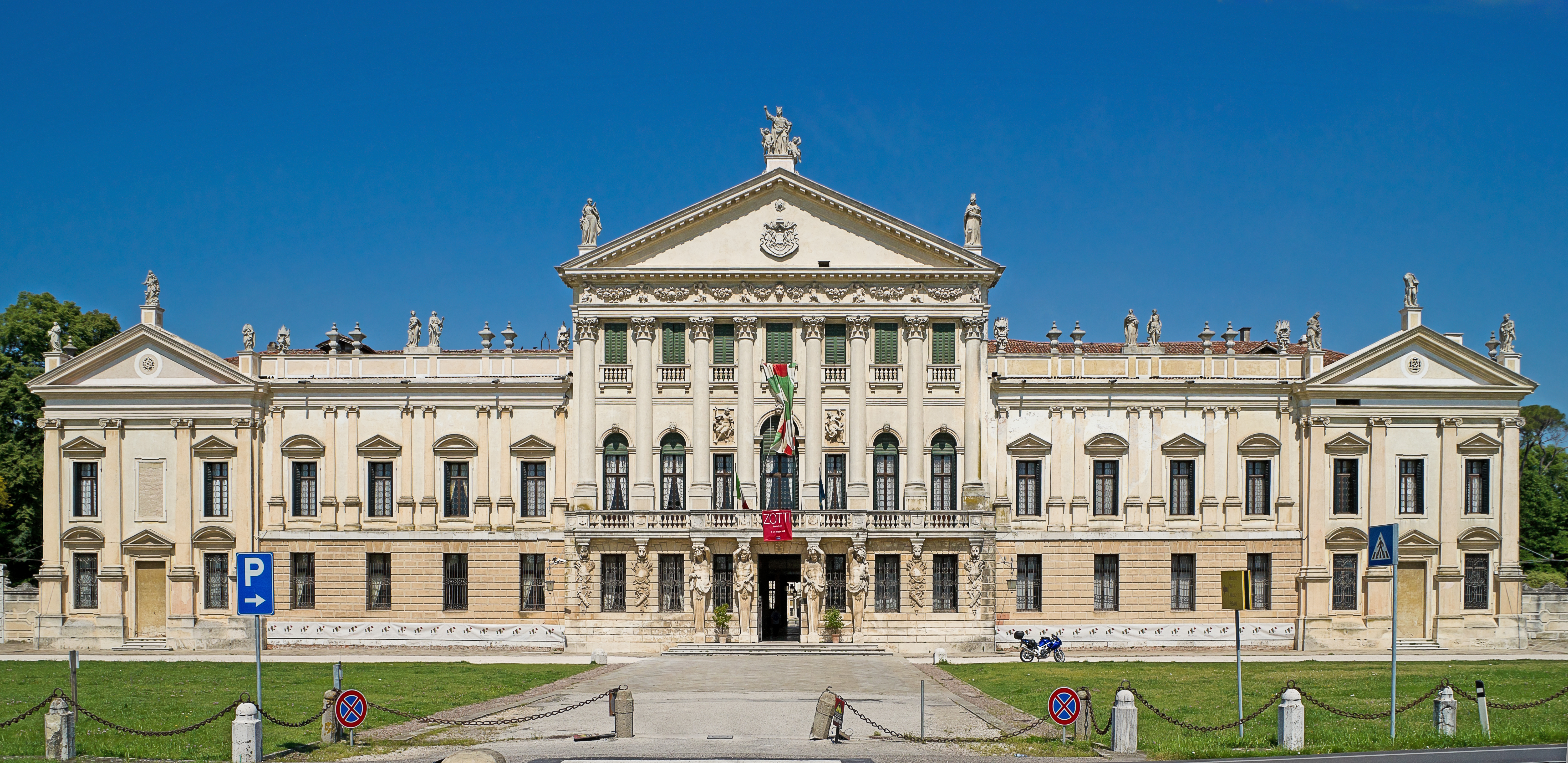 The main facade of the Villa Pisani, Stra.